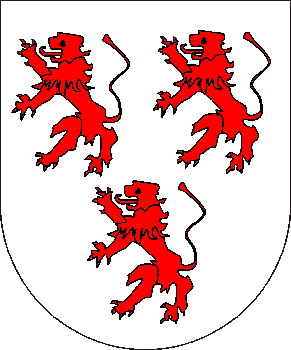 coats of arms of the prince-bishop of Cambrai